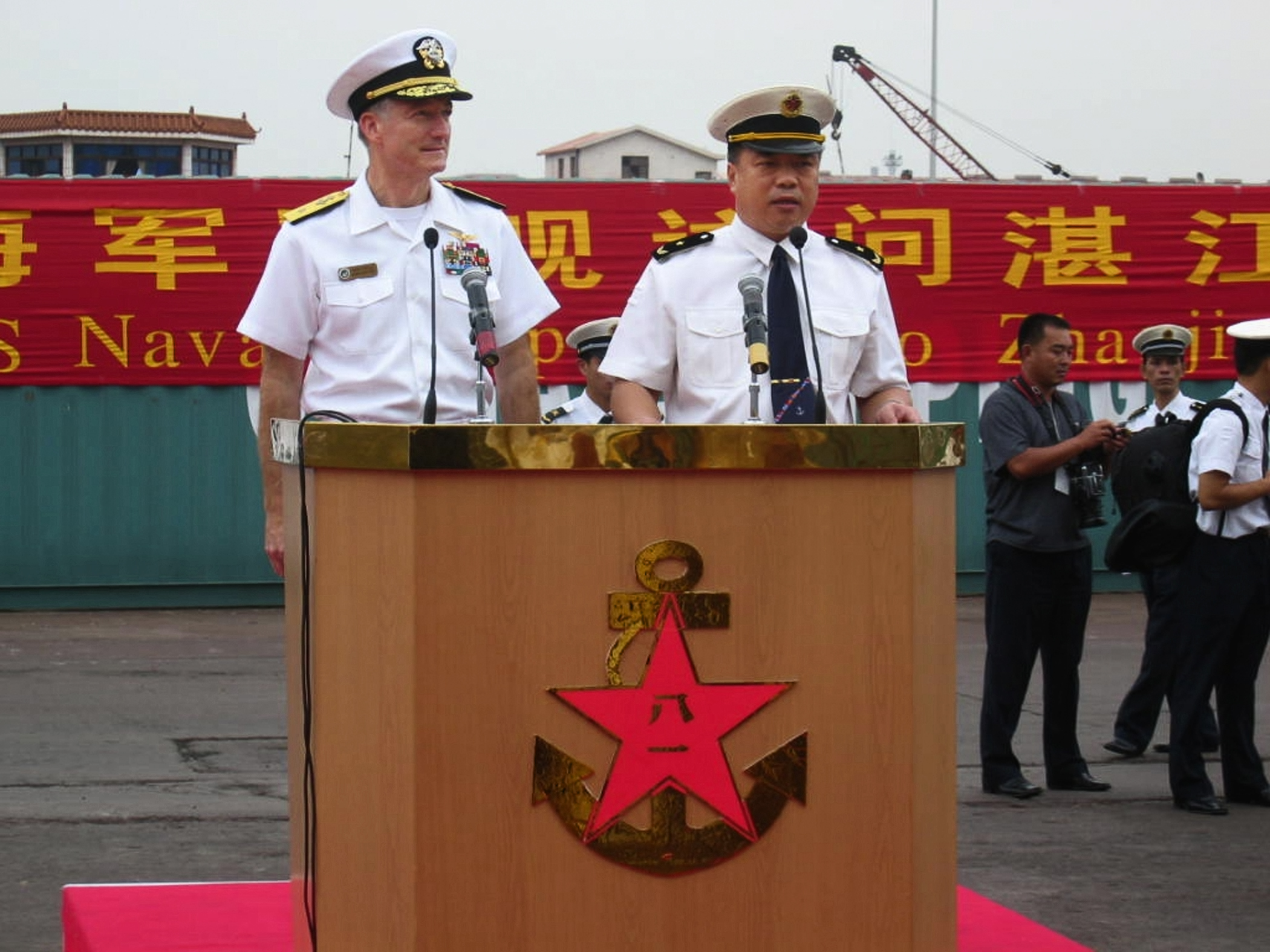 Zhanjiang, China -- Rear Adm. James D. Kelly, left, Commander Carrier Group Five, listens to remarks by People's Republic of China Rear Adm. Hou Yuexi, chief of staff for the Chinese South Sea Fleet, during the welcoming ceremony for guided missile cruiser USS Cowpens (CG 63) and guided missile frigate USS Vandegrift (FFG 48) in Zhanjiang, China. U.S. Navy photo. (RELEASED)